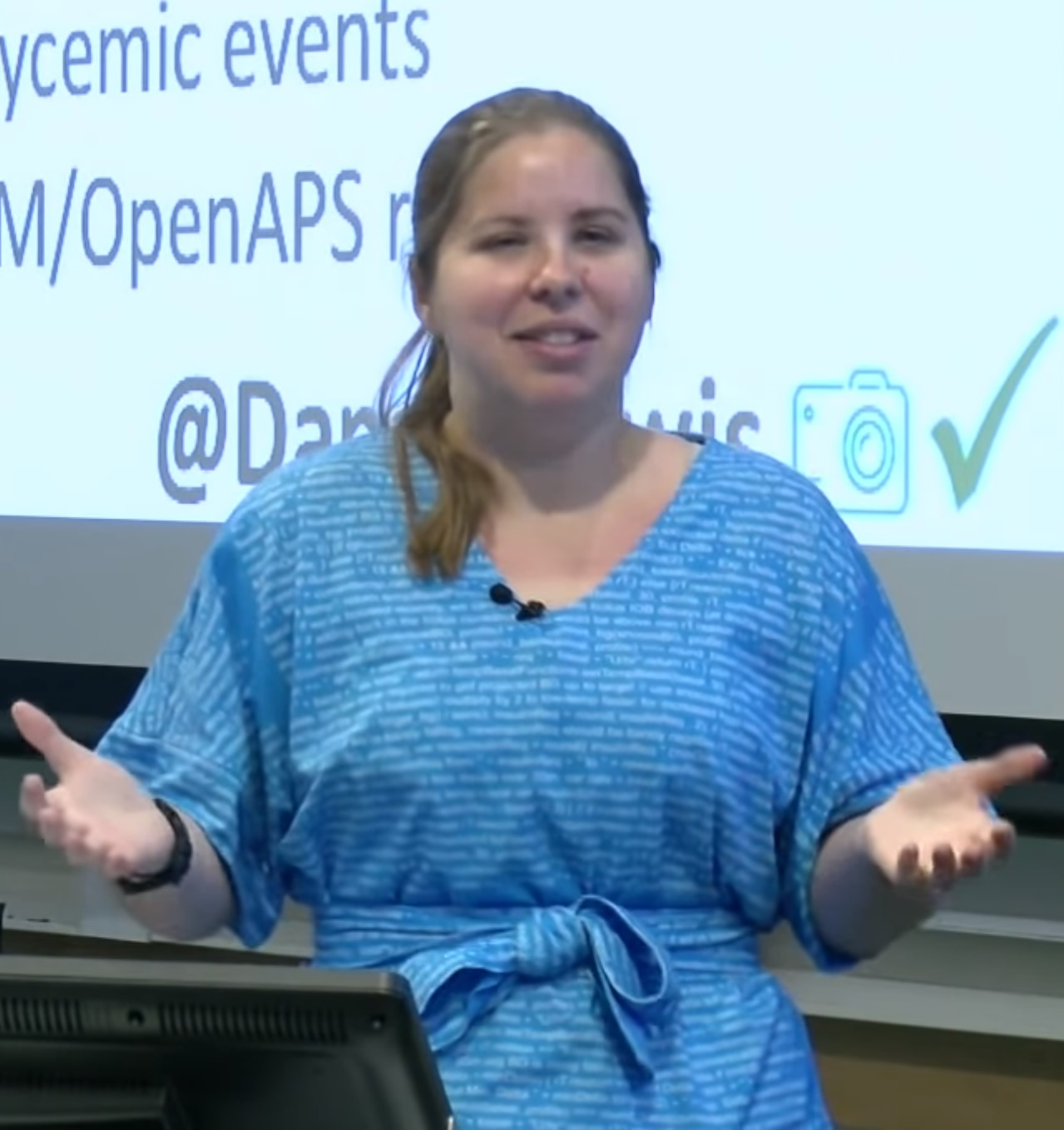 Dana Lewis, one of the developers of the Open Artificial Pancreas System (OpenAPS), at - is a conference about the Linux operating system, and all aspects of the thriving ecosystem of Free and Open Source Software that has grown up around it. Run since 1999, in a different Australian or New Zealand city each year, by a team of local volunteers, LCA invites more than 500 people to learn from the people who shape the future of Open Source. For more information on the conference #linux #foss #opensource